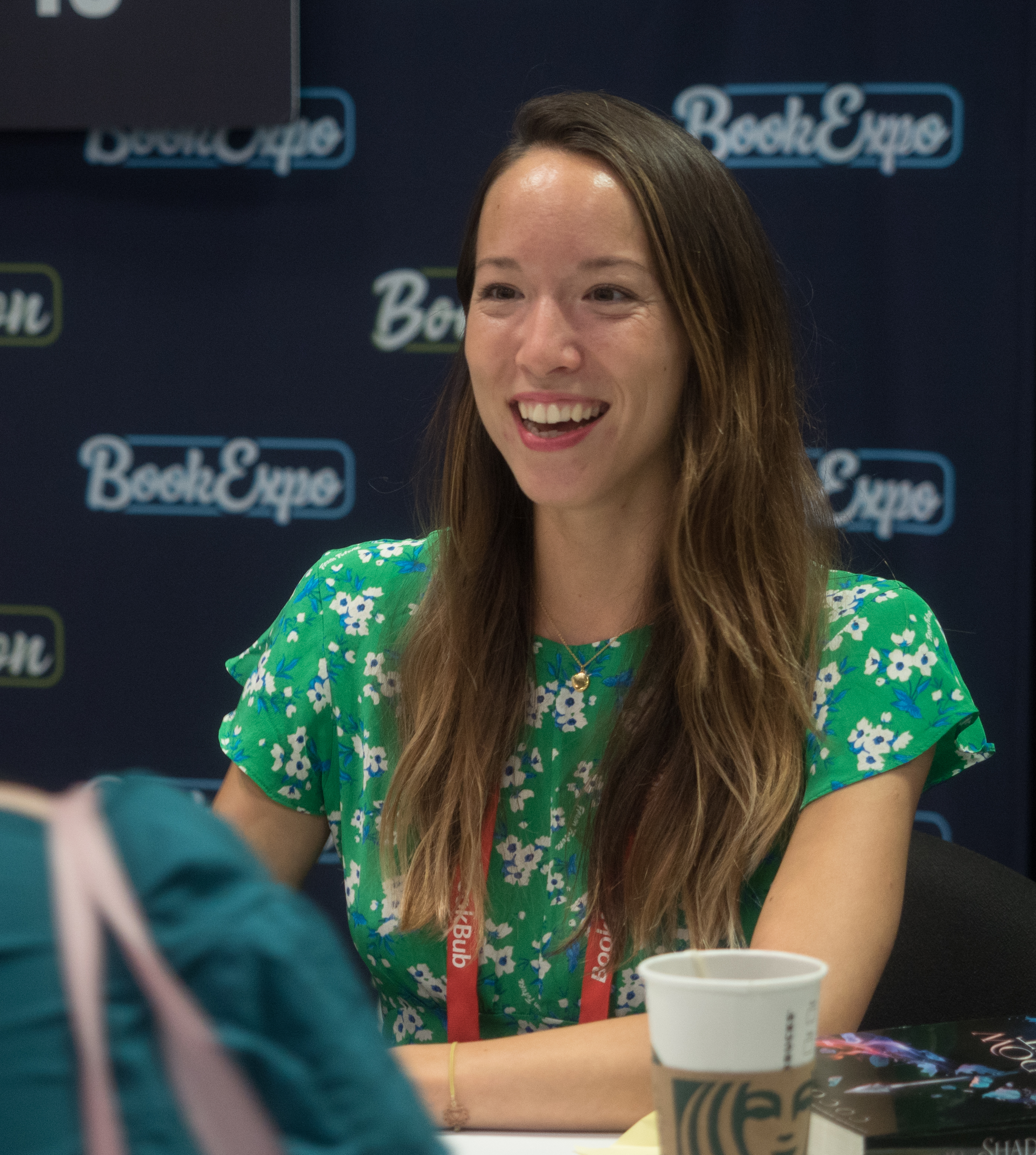 Natasha Ngan at BookExpo at the Javits Center in New York City, May 2019.